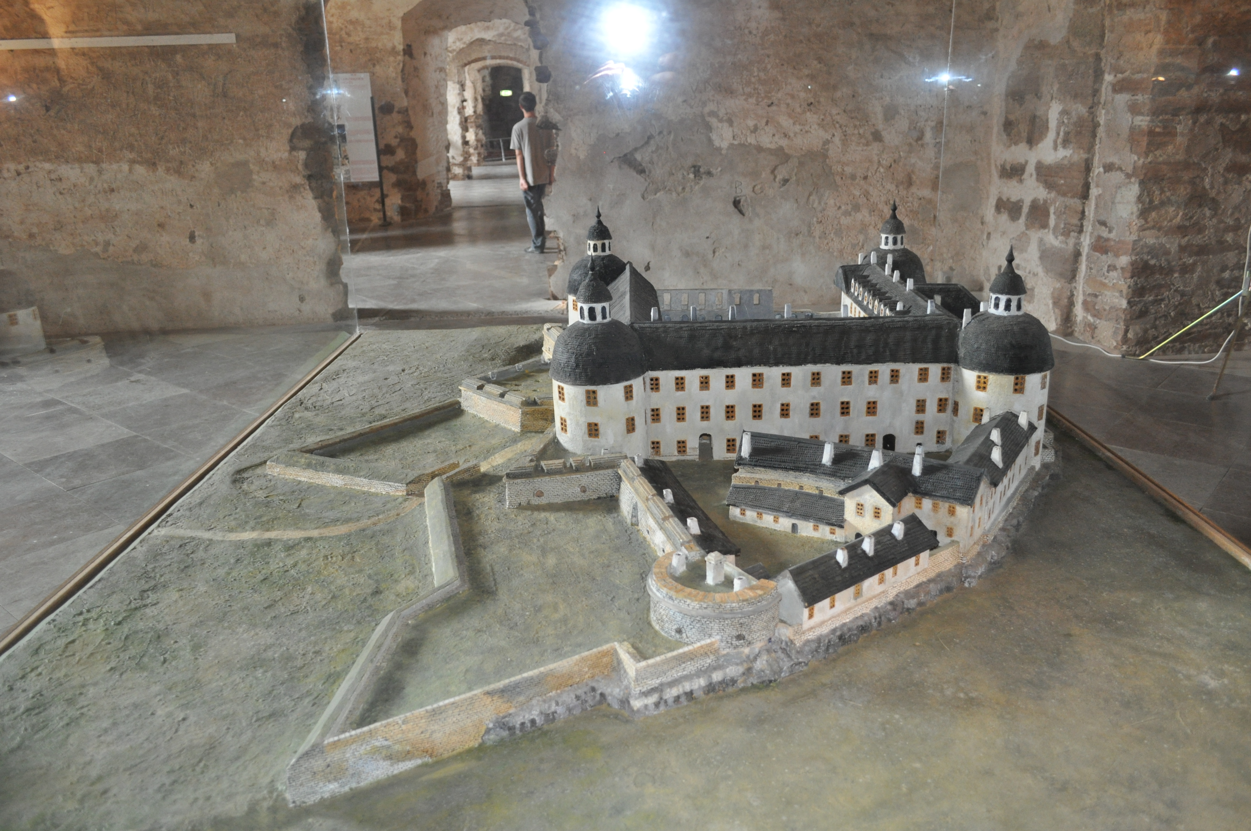 Borgholms slott, model